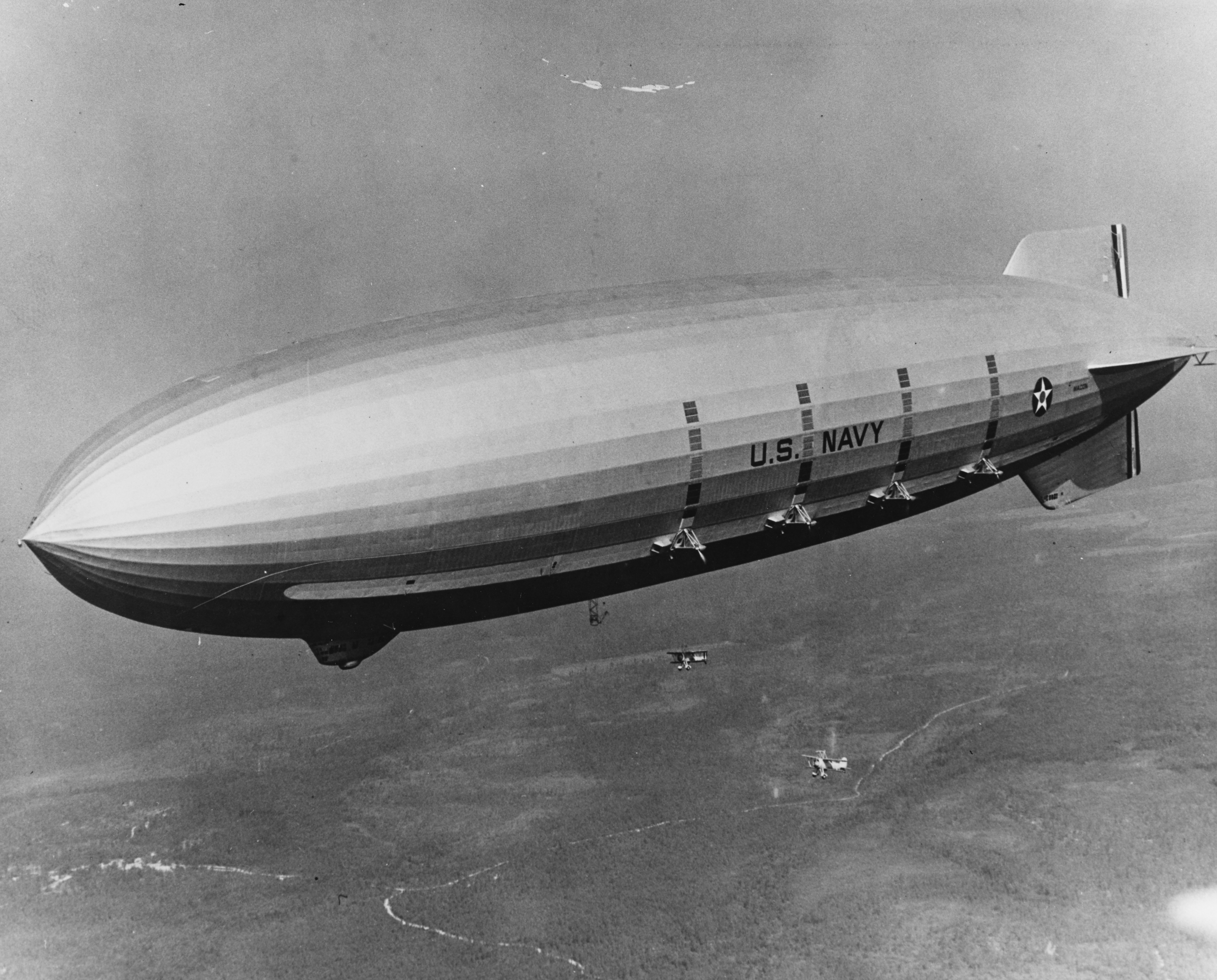 The U.S. Navy airship USS Macon (ZRS-5) conducts initial operations with her Curtiss F9C-2 "Sparrowhawk" aircraft, over New Egypt, New Jersey (USA), on 7 July 1933. The two planes, visible below the airship, were piloted by Lieutenant D. Ward Harrigan and Lieutenant (Junior Grade) Frederick N. Kivette. (Text: US Navy)